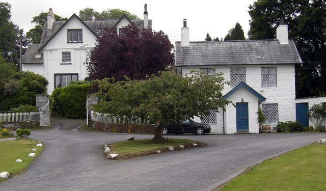 Cox's Lodge, at right, Ann Street, Gatehouse of Fleet.